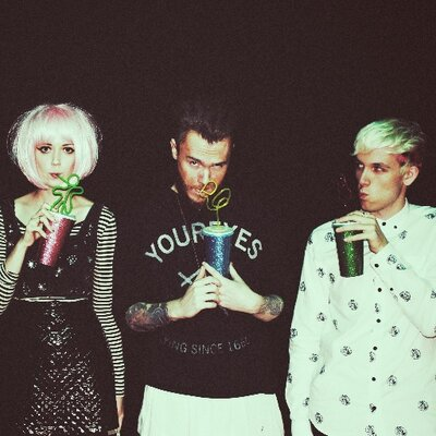 Lovestarrs in 2014